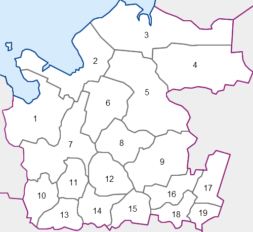 numbered location map of Arkhangelsk region, based on Image:Ru-ark full.svg